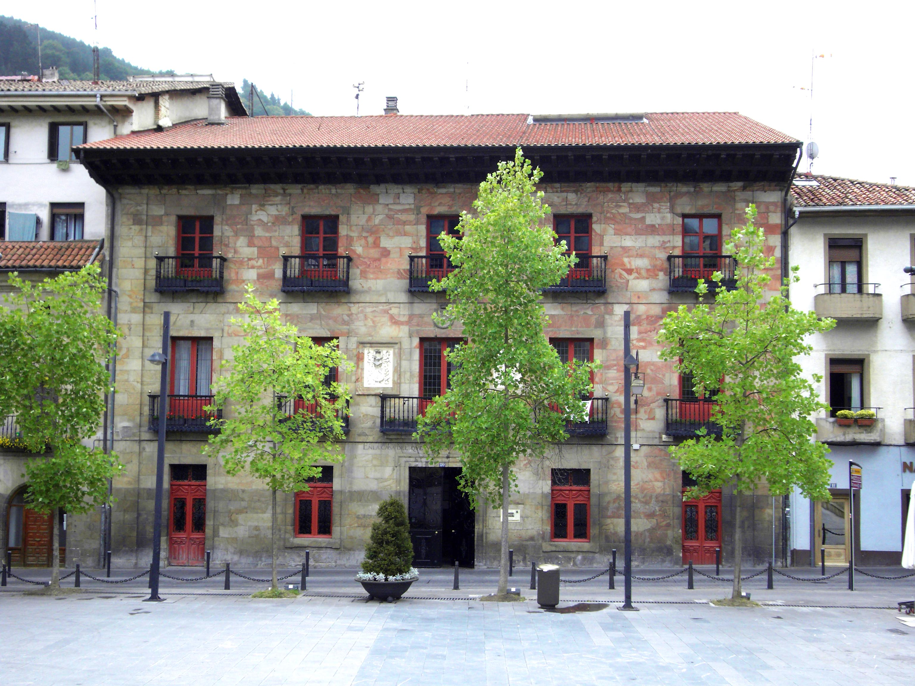 Corral-Ipeñarrieta palace, current Town Hall, Urretxu (Guipuscoa, Basque Country)